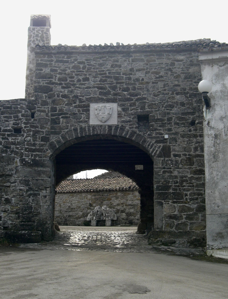 City gates in Roč, Istria, Croatia